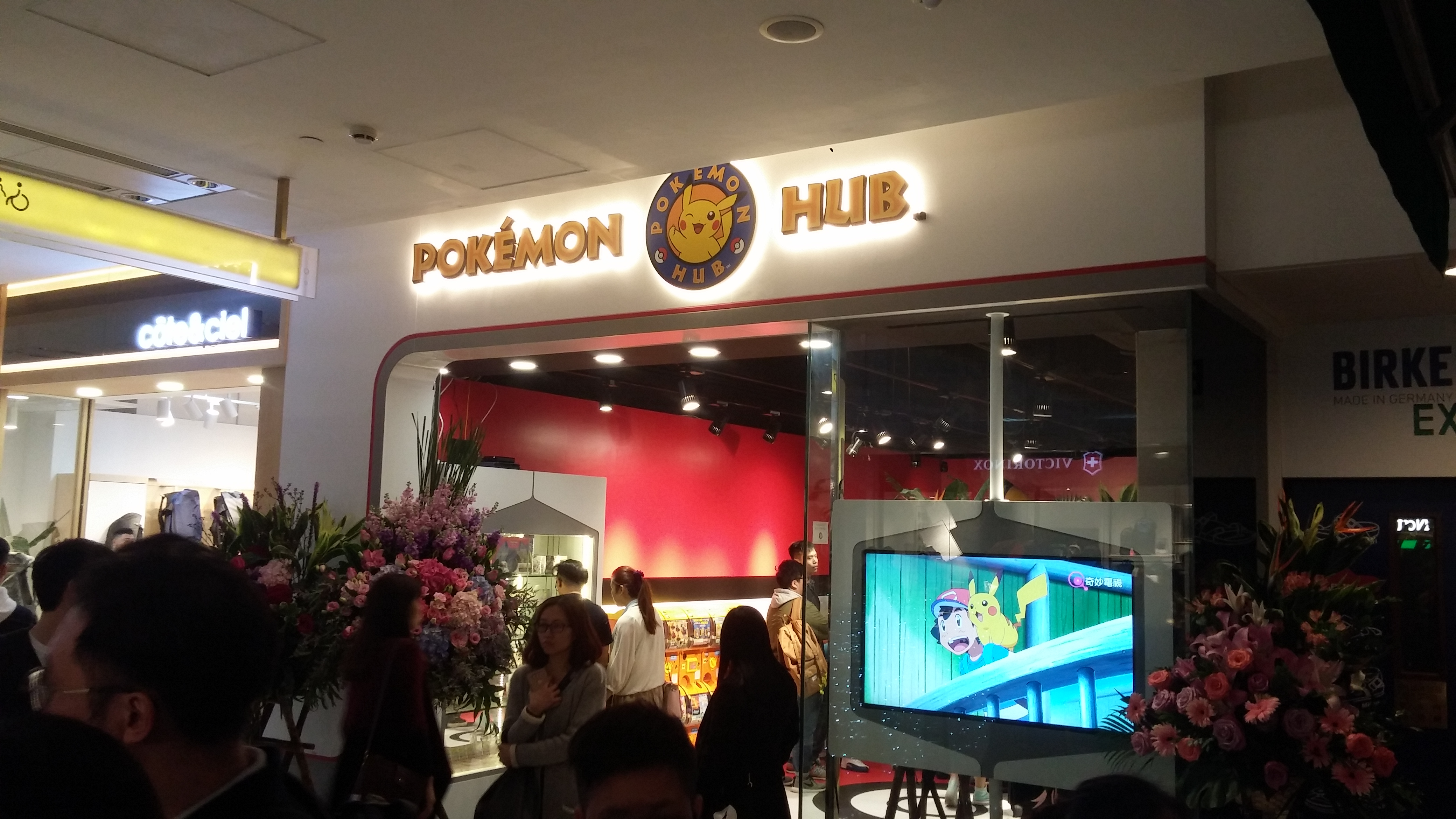 Pokémon Hub, an official Pokémon retail store in K11, 18 Hanoi Road, TST, Kowloon, Hong Kong from 2017.12.15 to 2018.06.25.